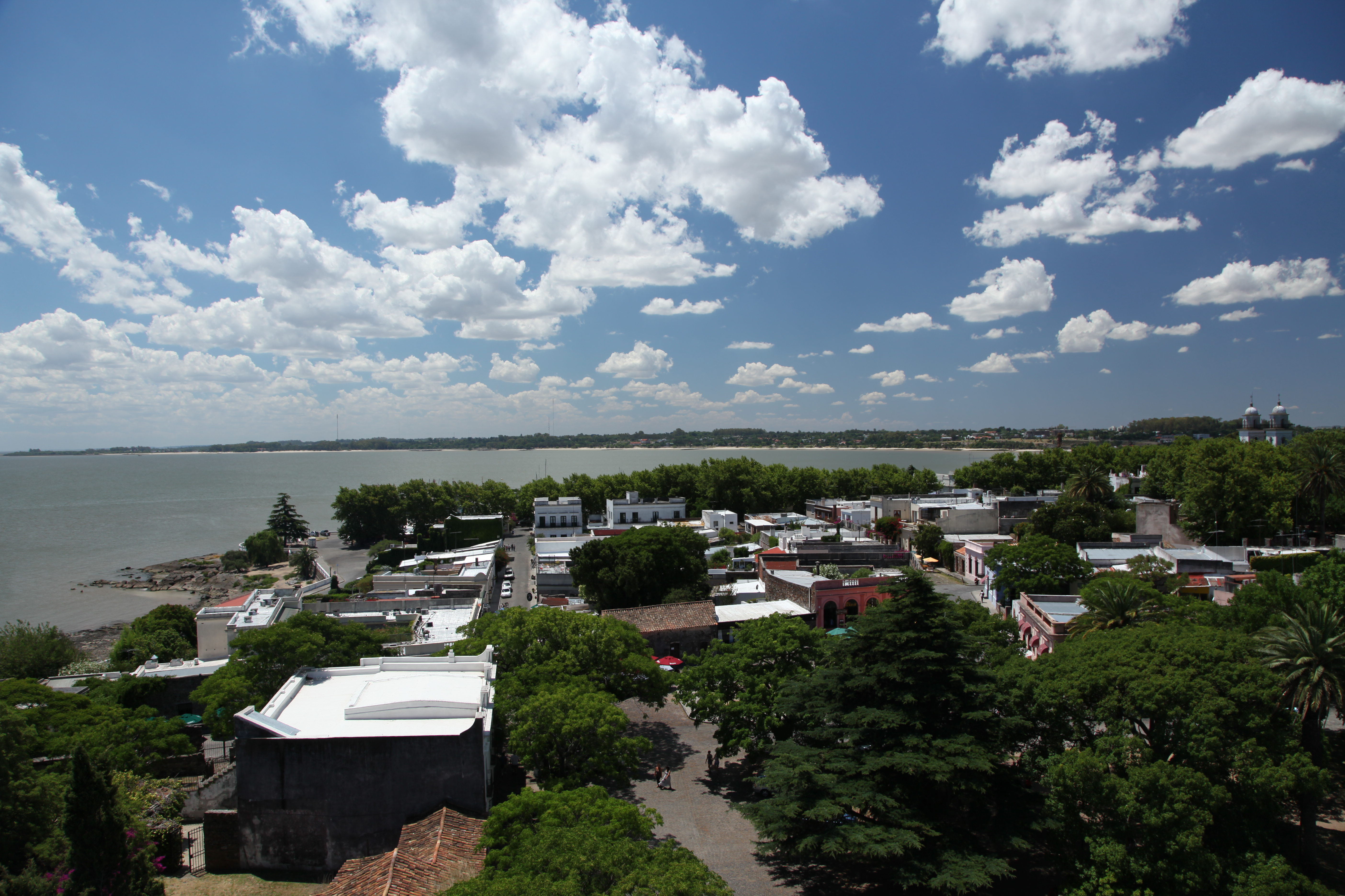 View from the lighthouse